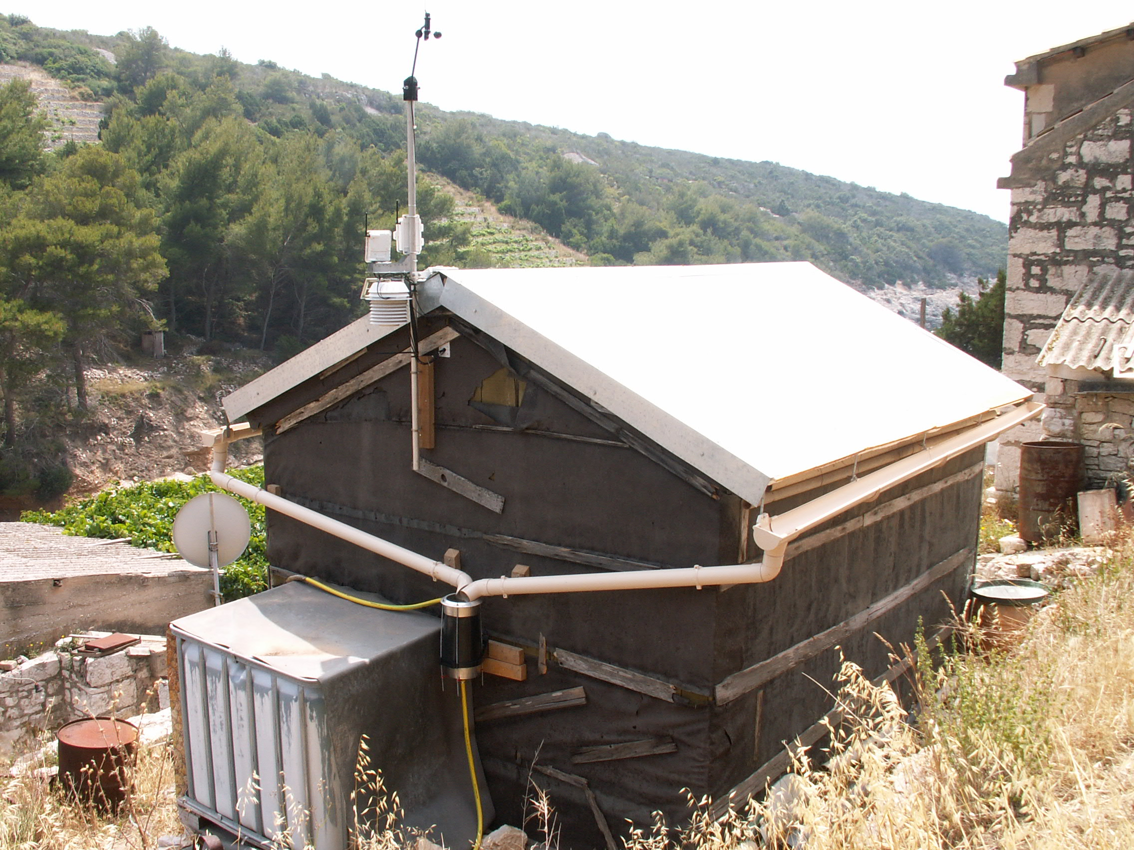 Dew collecting Roof in Croatia